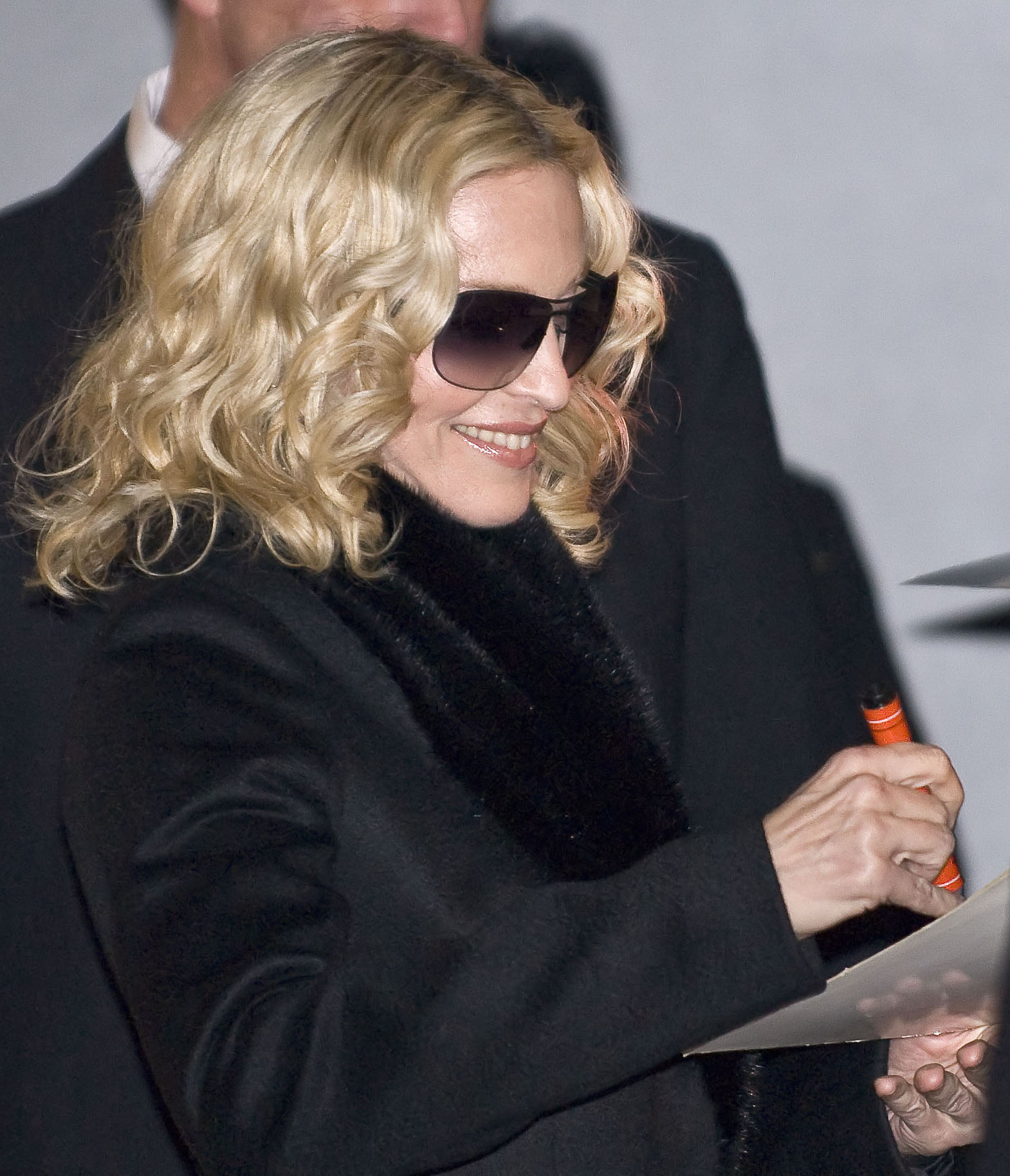 Madonna leaving the press conference for "Filth And Wisdom" at the Hyatt Hotel, Potsdamer Platz, Berlin